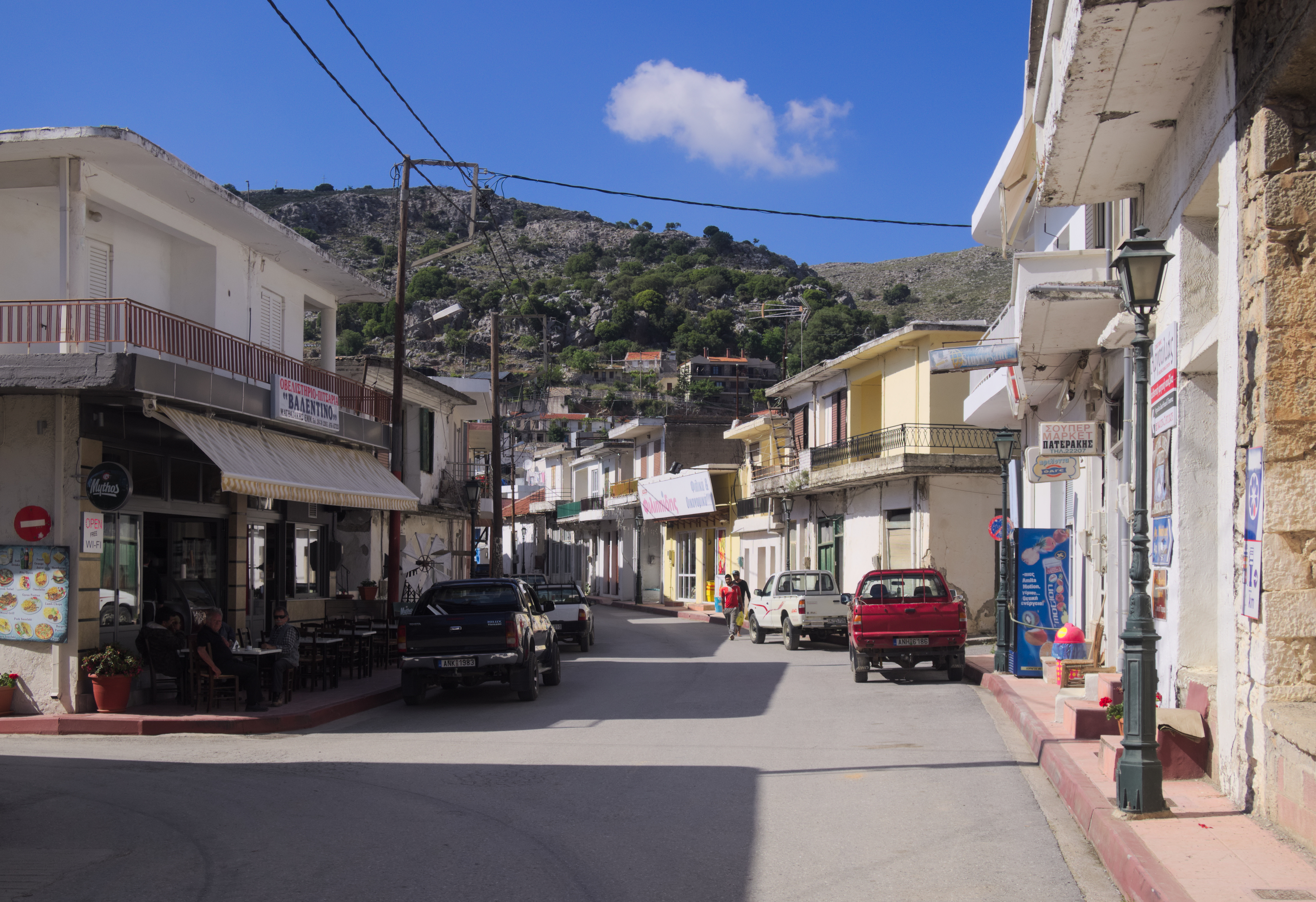 The main street passing through Tzermiado, Crete.